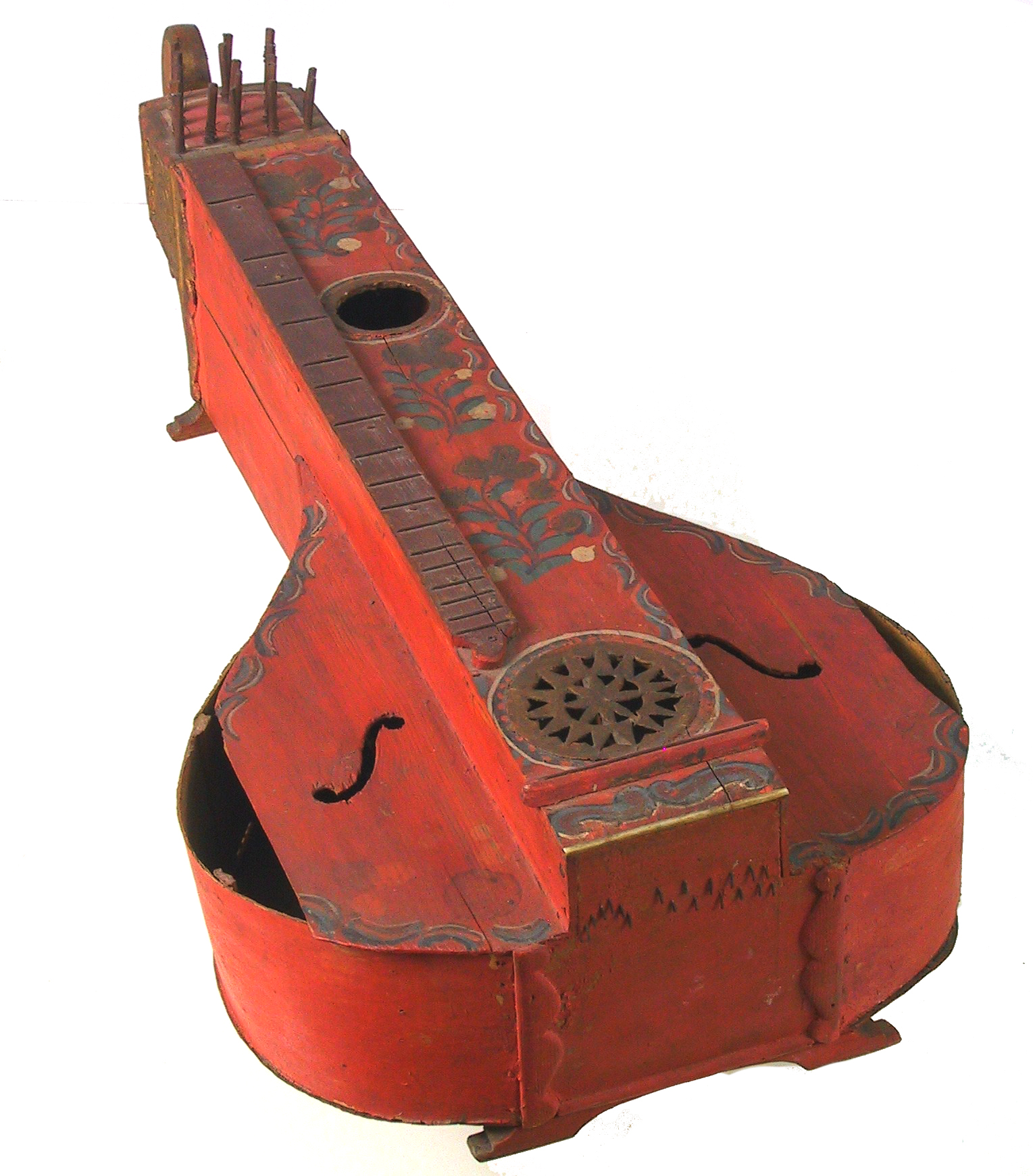 A object belonging til Aust-Agder museum og arkiv. Arendal, Norway